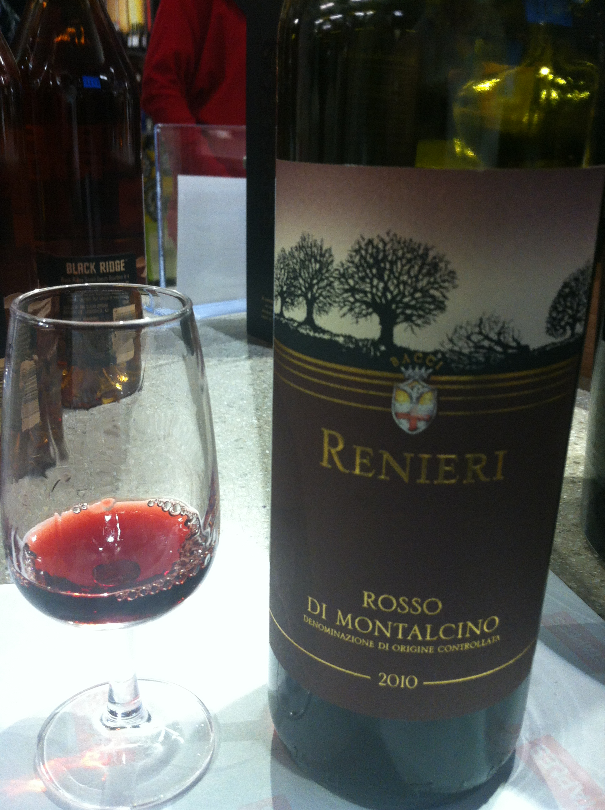 Declassified Brunello made from 100% Sangiovese in the Tuscan wine region of Montalcino